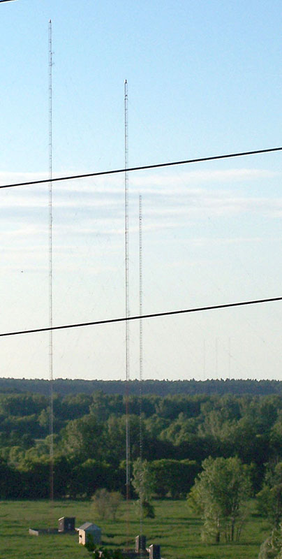 WCAT 1390's towers in Burlington, VT Other information Published on my own site as well.